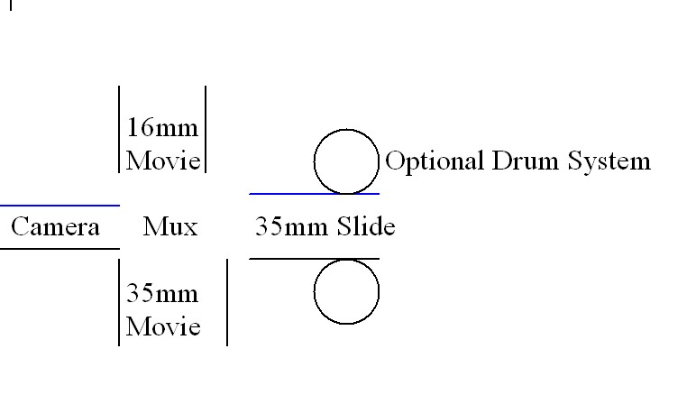 Type of film island—film chain, a top view